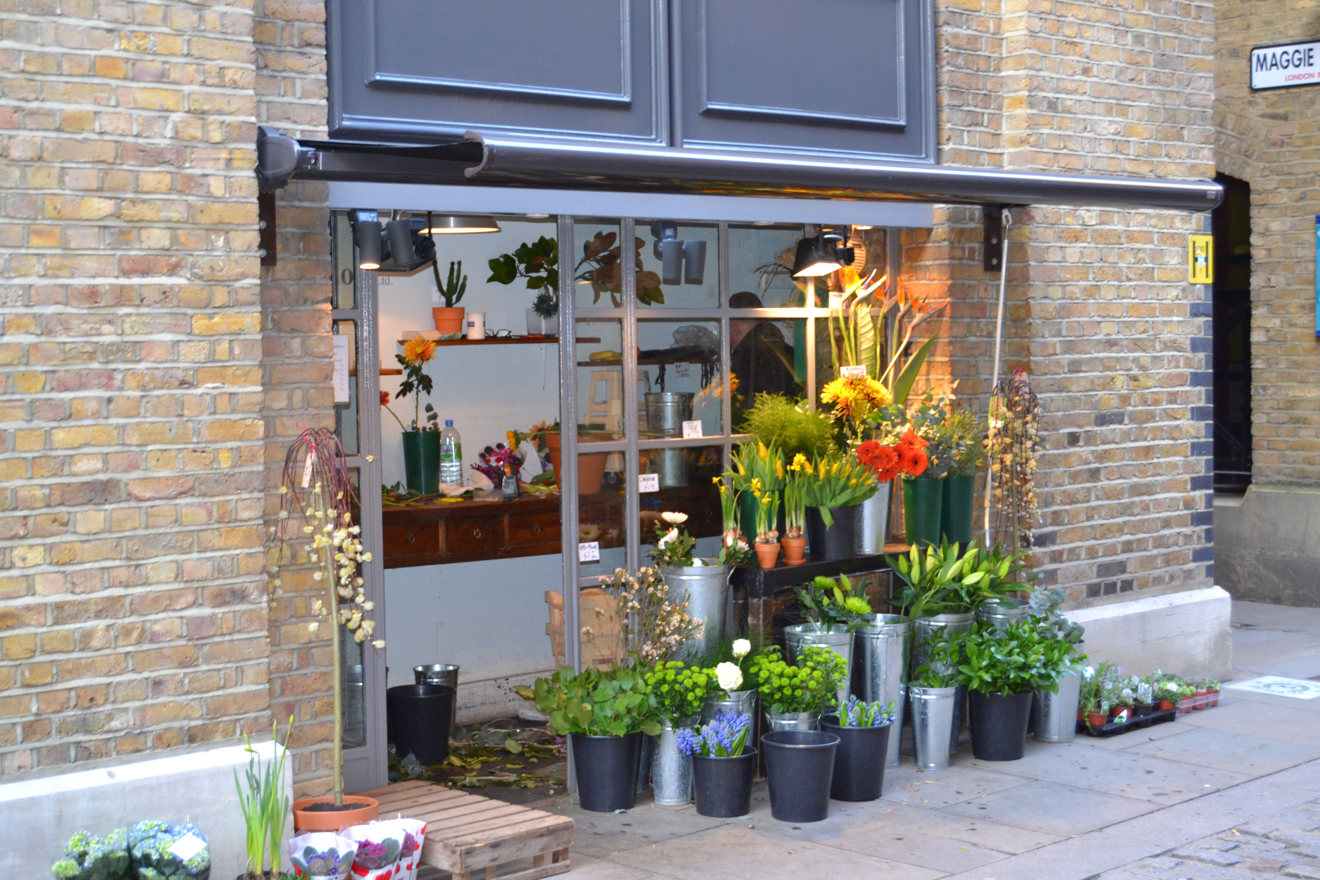 Flower Shop in Butler's Wharf, London, UK